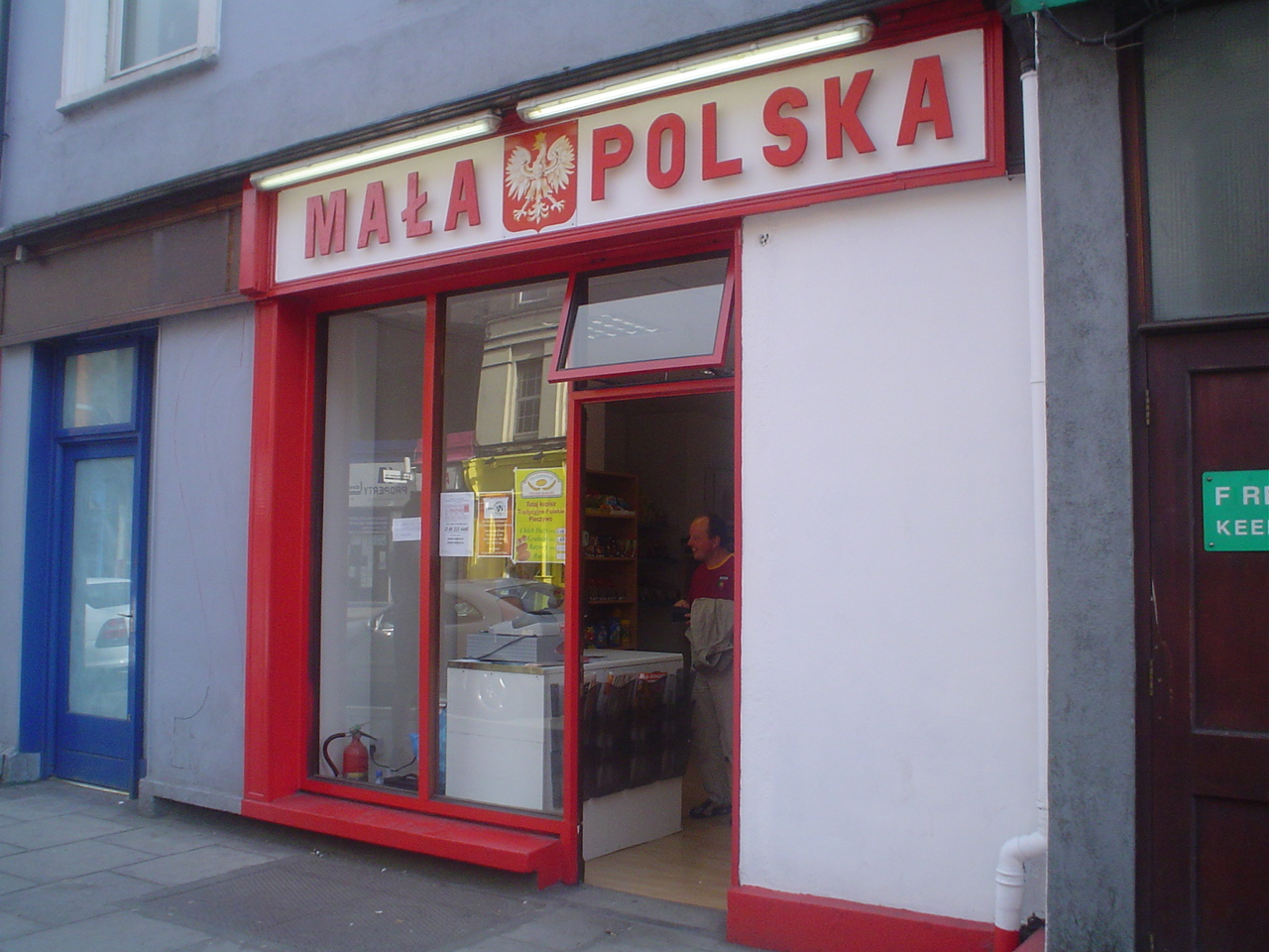 Cork Polish shop "Little Poland"